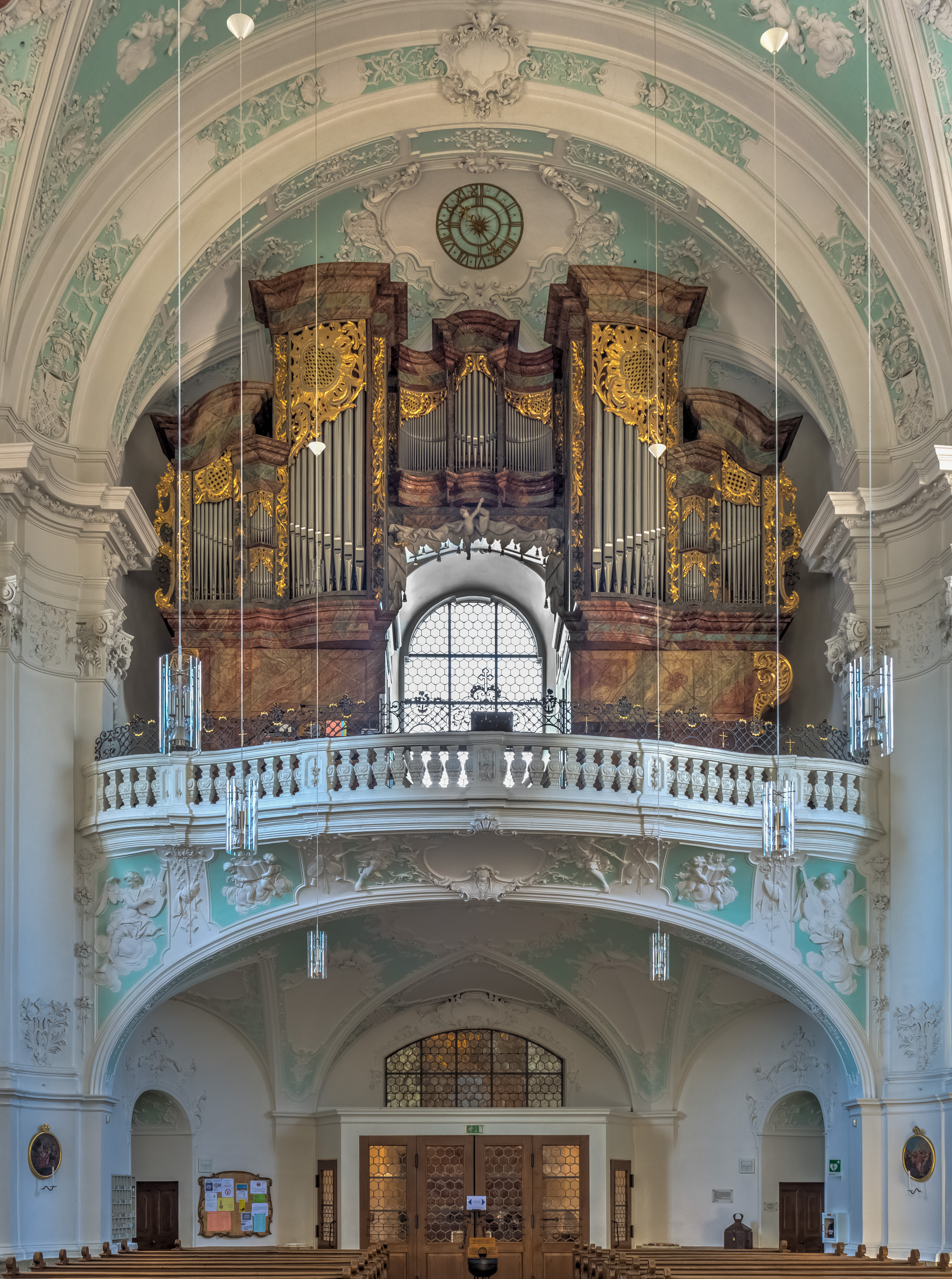 Pipe organ of the Basilika in Gößweinstein